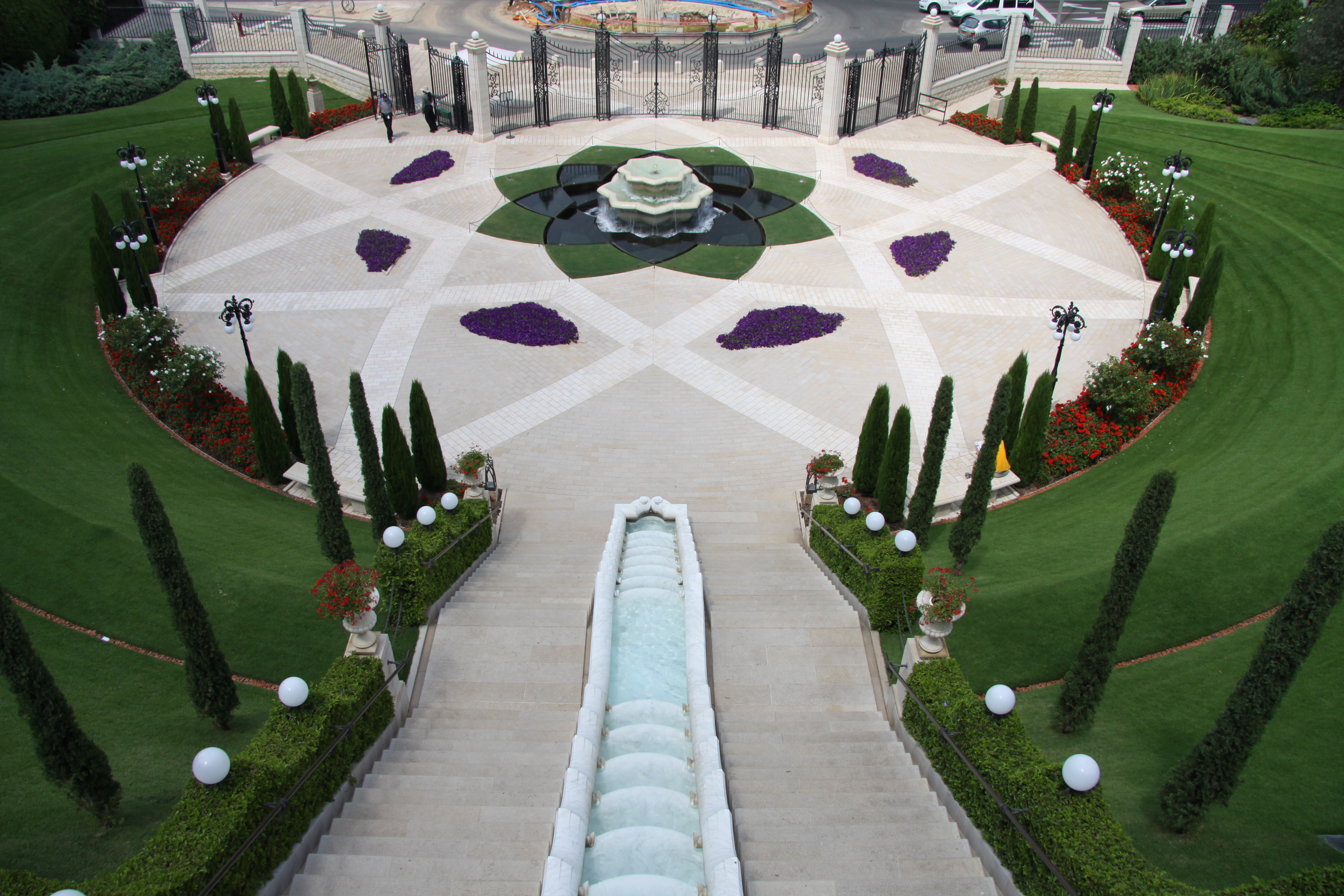 Bahá'í gardens in Haifa, Israel. - Google Maps - Google Earth